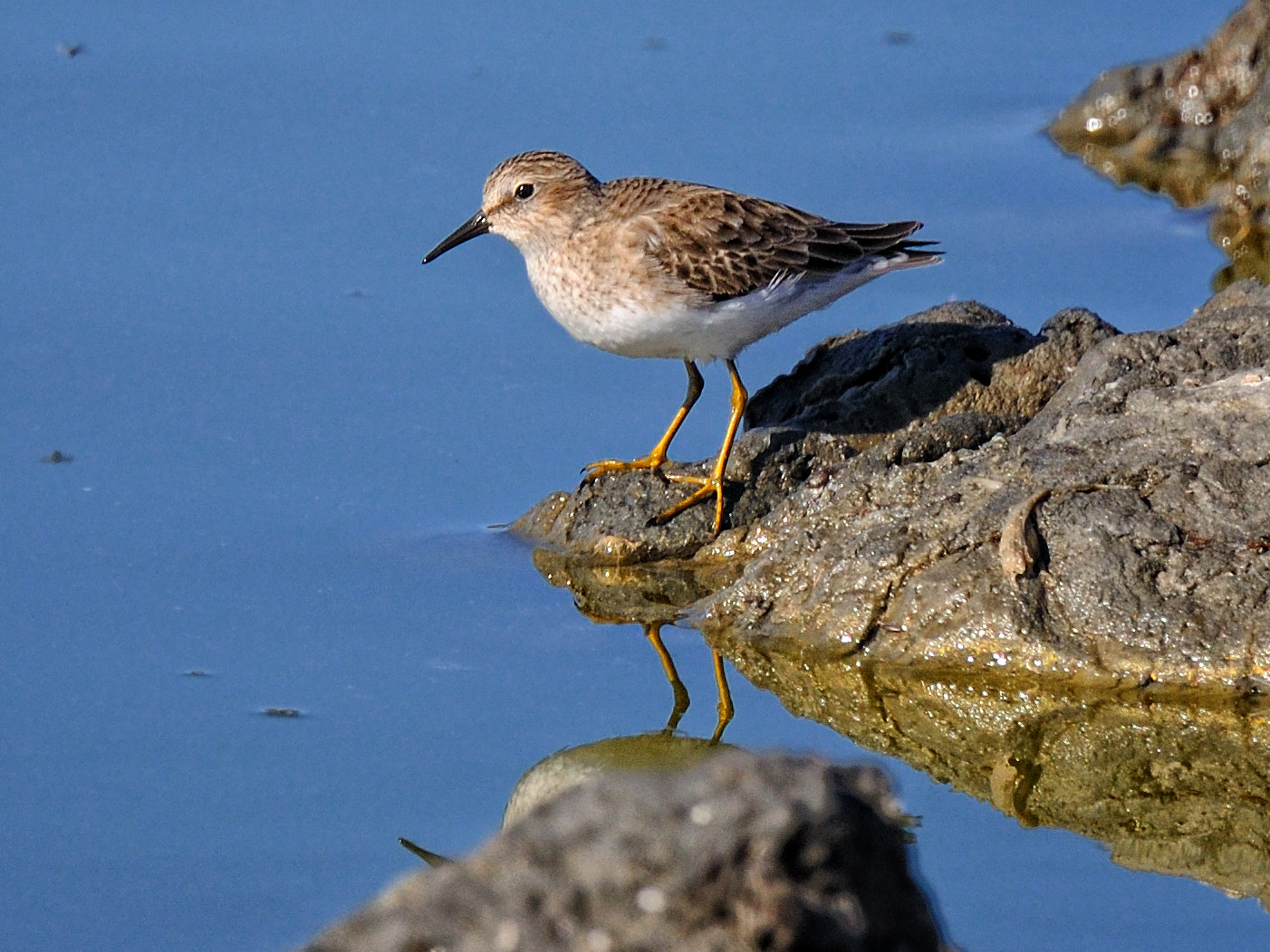 Least Sandpiper Calidris minutilla, Don Edwards Wildlife Refuge, Newark, California